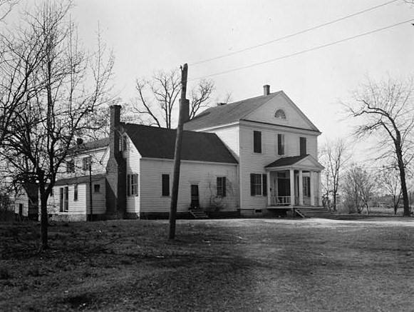 Prudence Person House, 603 North Main Street, Louisburg (Franklin County, North Carolina) - cropped